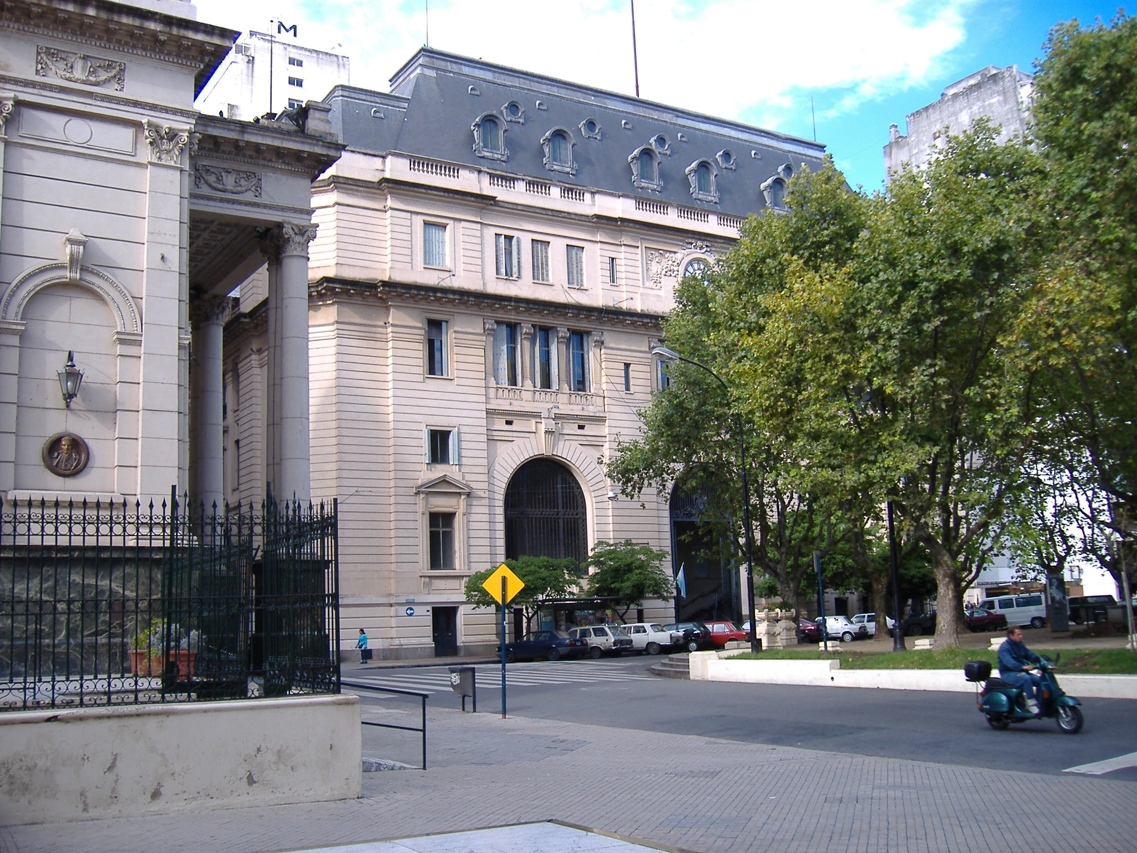 The Central Post Office building in Rosario, Argentina (on Córdoba St. between Laprida and Buenos Aires).